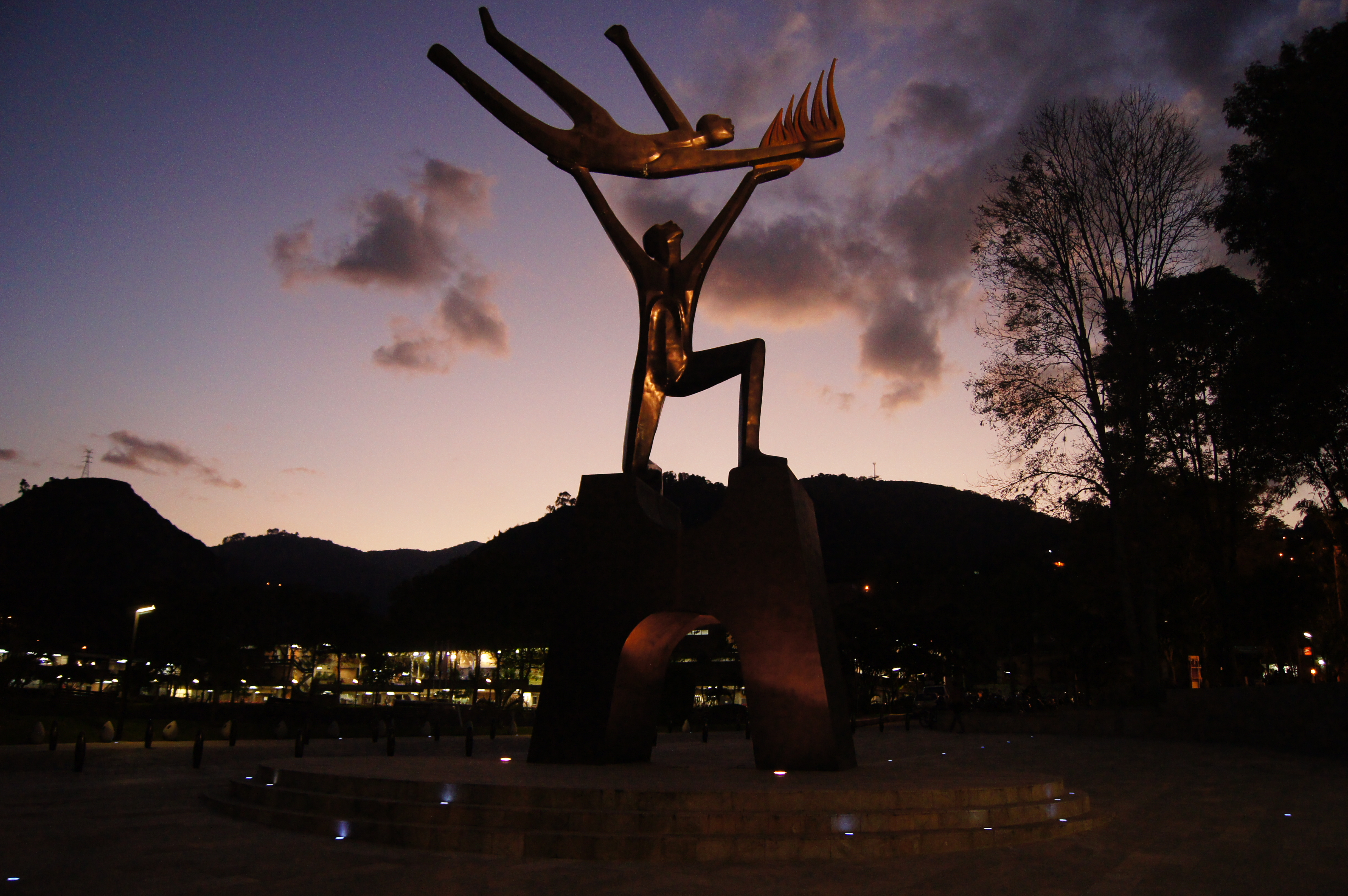 Prometeo, Ciencia, Futuro y Libertad. Escultor: Salvador Arango. Toma Tarde/Noche